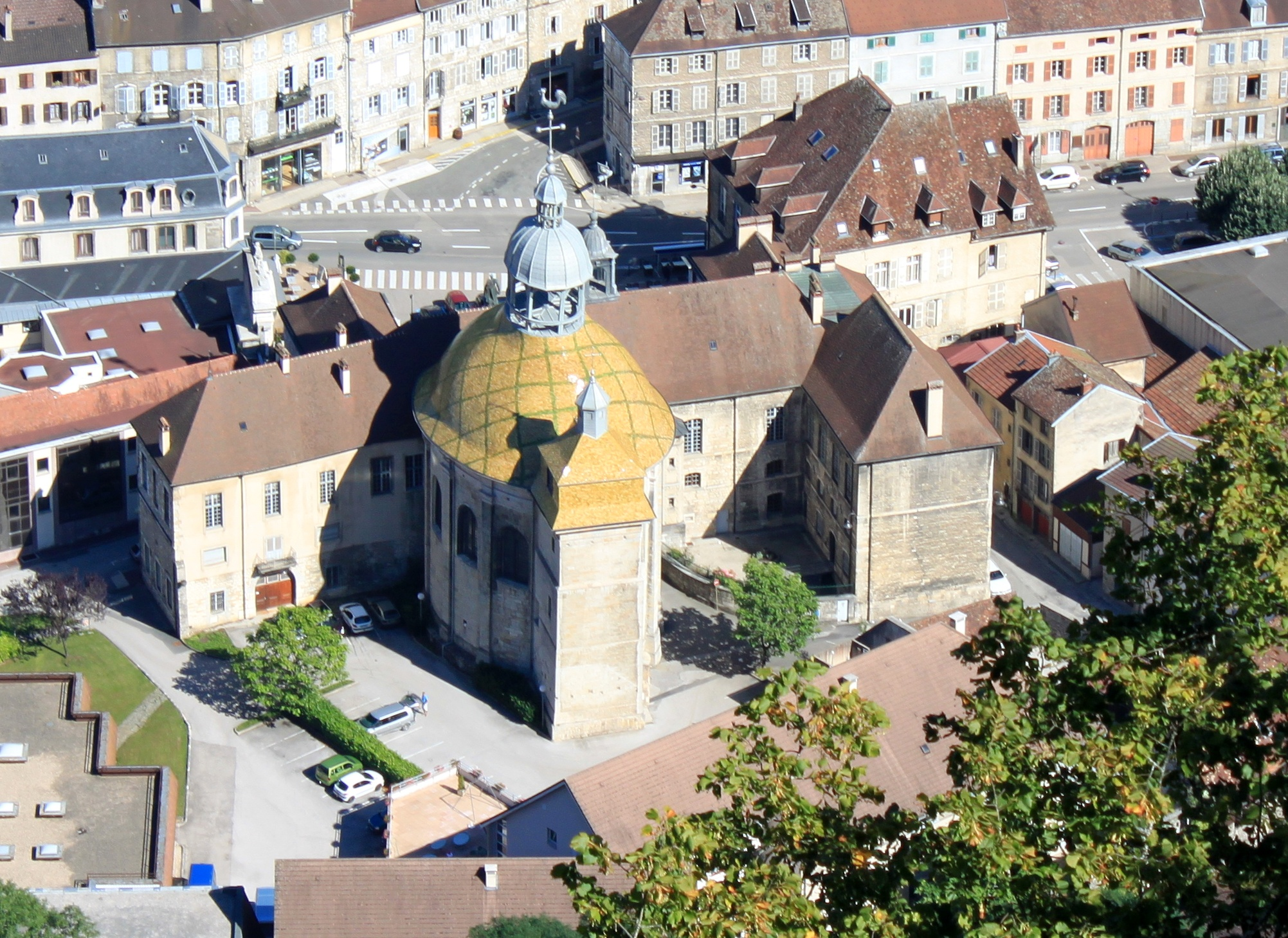 Salins-les-Bains, Jura, France